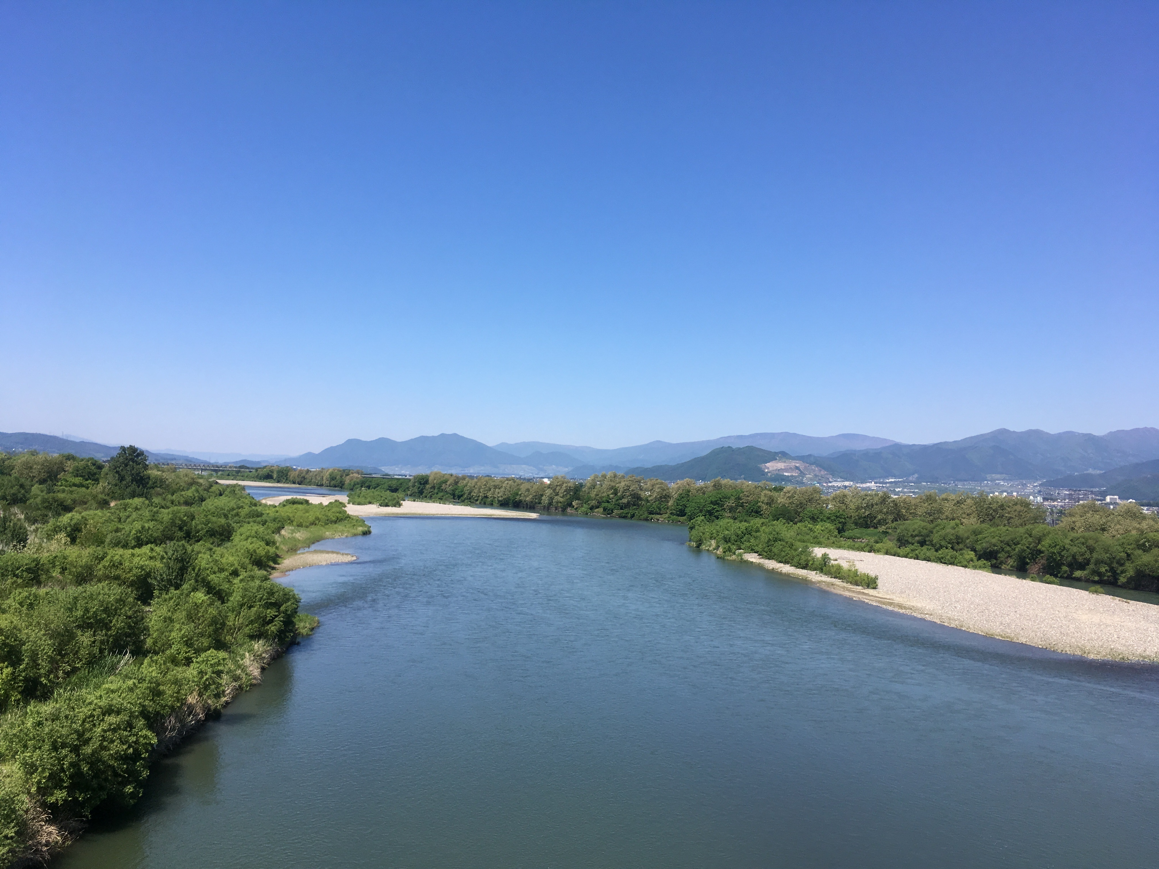 This is a photo of the Chikuma River, looking downstream towards Murayama Bridge, taken from Yashima Bridge, Nagano City.